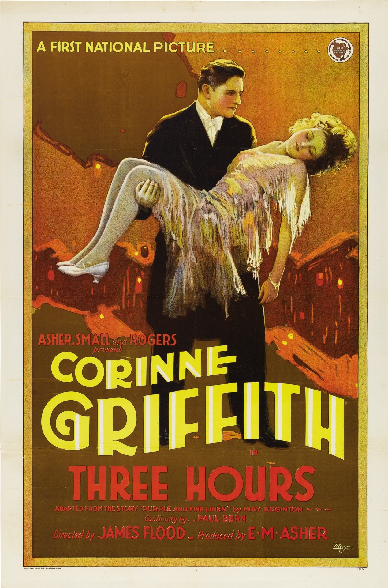 Poster for the 1927 film Three Hours. There are no copyright markings pertaining to the image as can be seen in the links above. At lower left is Country of origin and production USA. At lower left is a logo for Morgan Litho Company--they printed the poster--and some numbers which apparently have to do with the print job for the poster.